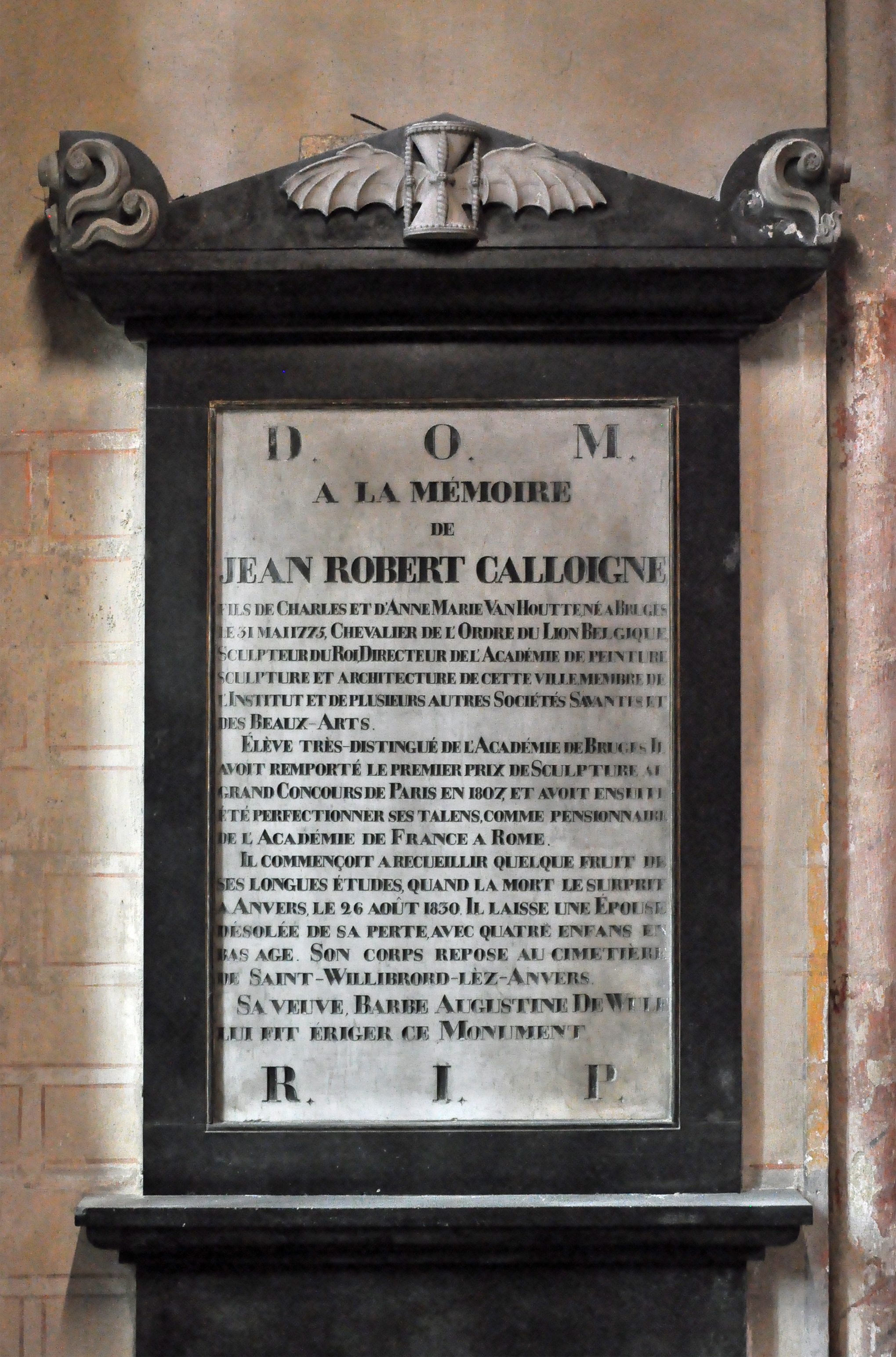 Epitaph of the flemish artist and architect Jan-Robert Calloigne (1775-1830) in the St Salvator cathedral in Bruges (Belgium)